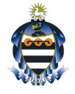 Grey College Emblem